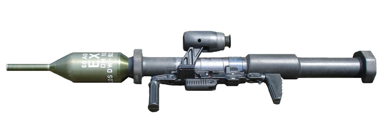 Panzerfaust 3 EX (EX= dummy) with Aiming/Firing Device